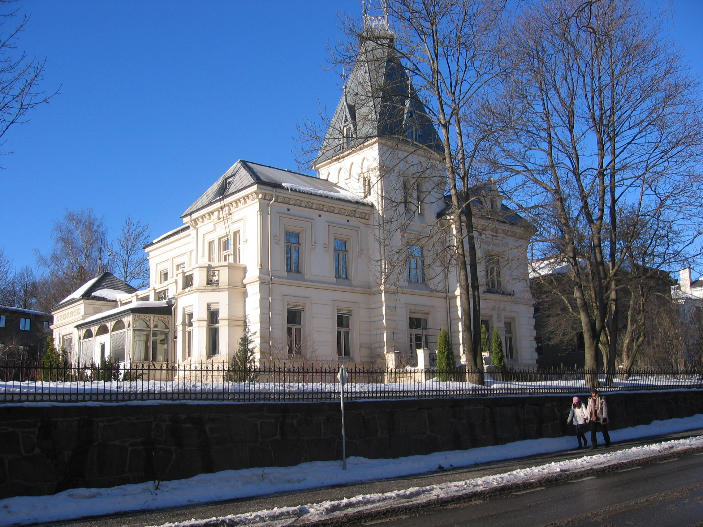 Colletts gate 43, by St. Hanshaugen park, Oslo. The building was finished 1887, architects Paul Due and Bernhard Steckmest, often called Ringnesslottet after the owner, breweryowner Ellef Ringnes